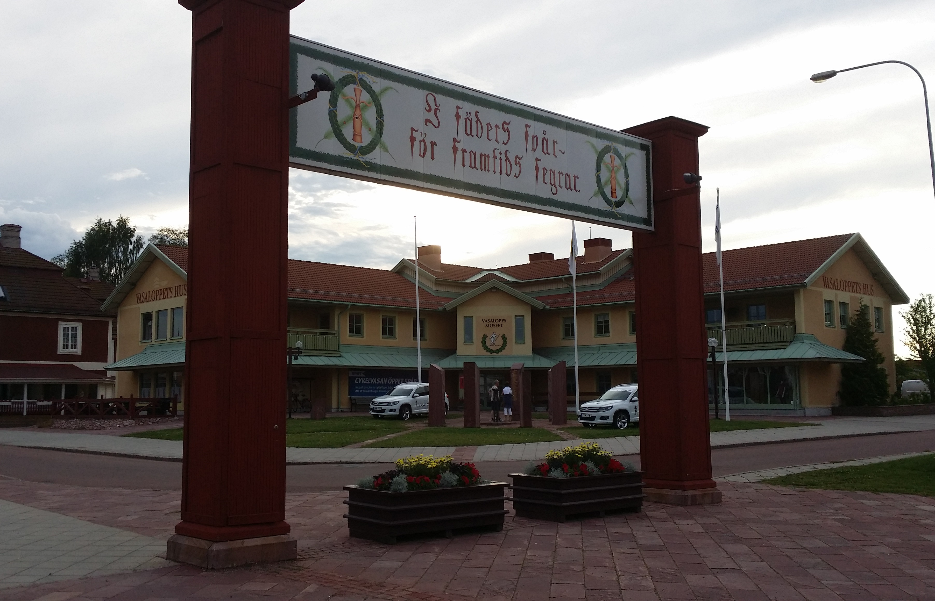 Finish portal of the Vasaloppet ski race as it looks during summer time.